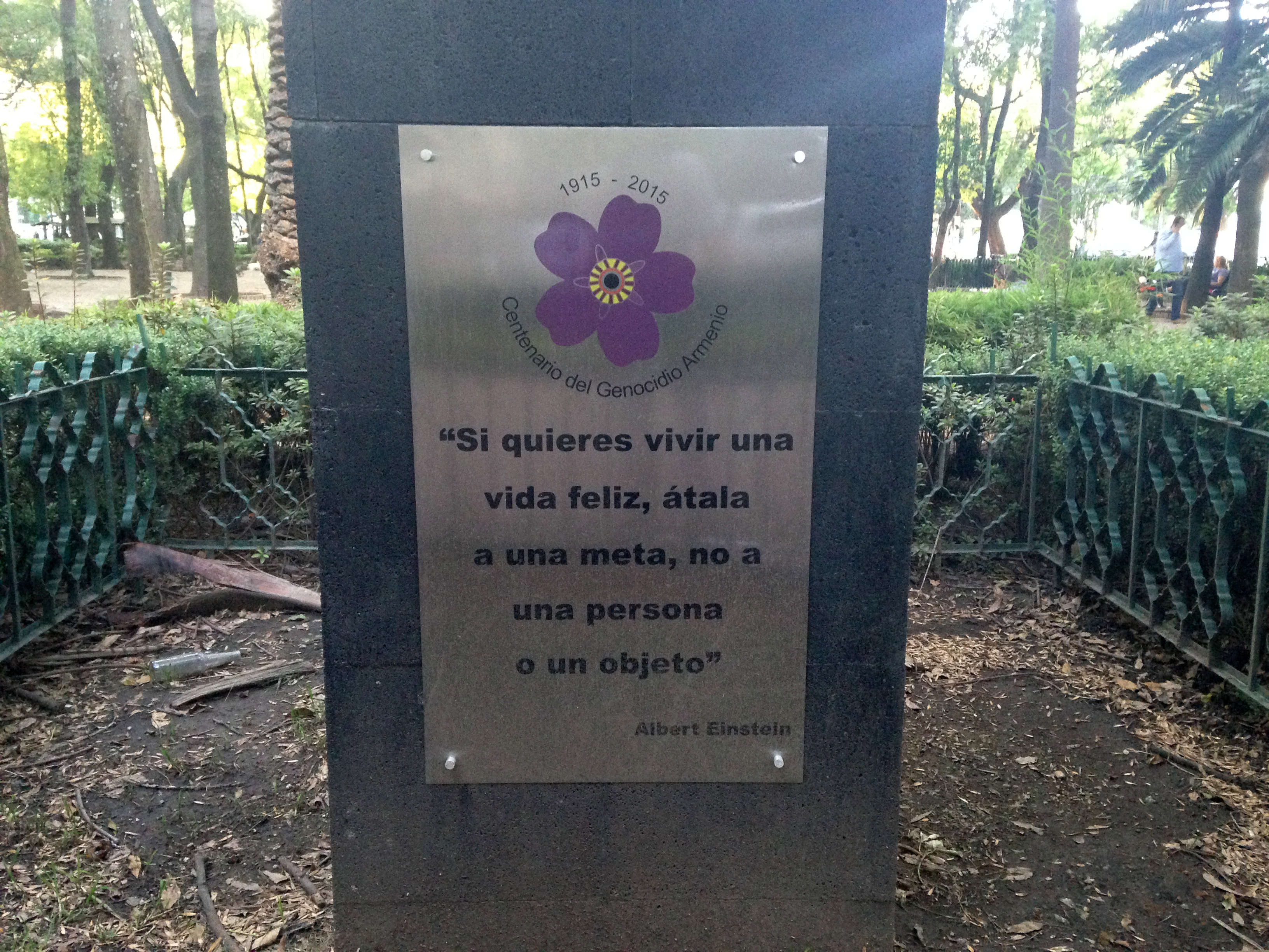 Plaque commemorating the Armenian Genocide on a bust of Albert Einstein. Parque Mexico, Mexico City.